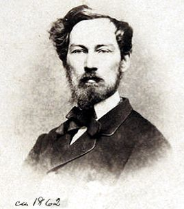 Edward Thompkins Whitney self portrait CDV